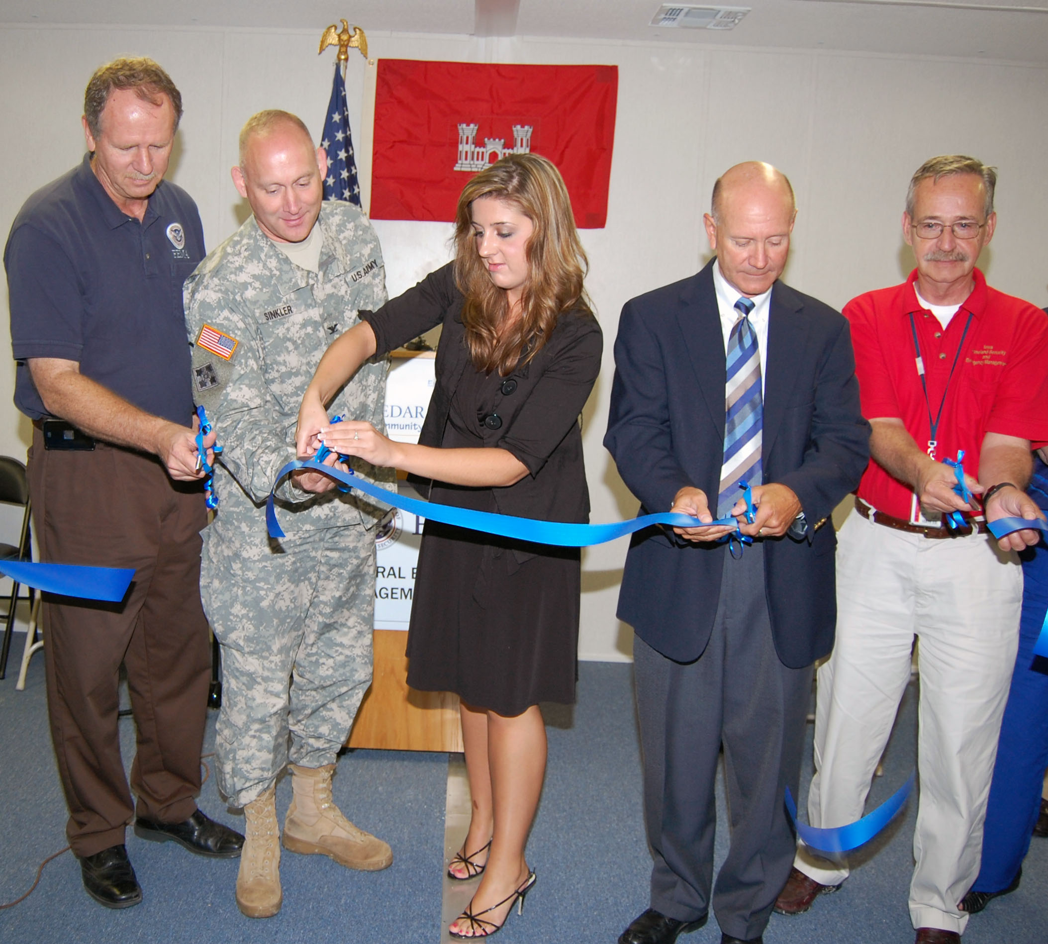 Cedar Rapids, IA, August 21, 2008 -- Federal, State and local officials team up for the opening and ribbon cutting ceremony of the Temporary Educational Service Center for the Cedar Rapids School District. From left to right: Richard Hainje, FEMA Region VII Administrator; US Army Corps of Engineers, Col. Robert A. Sinkler; Constituent Services Representative for Congressman Dave Loebsack (District 2) , Jessica Moeller; School District Superintendent, Dr. Dave Markward and State Coordinating Officer Pat Hall. Photo by S. Garrastegui / FEMA 2008